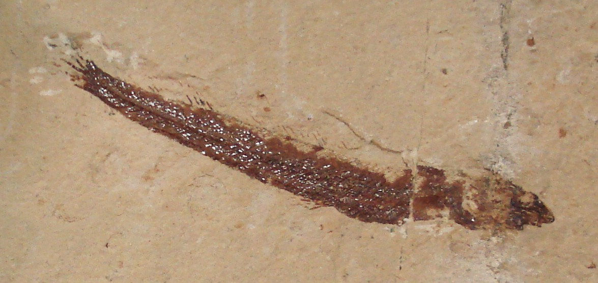 Fossil of Aphanepygus dorsalis, an extinct fish